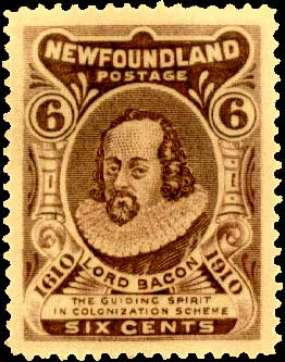 A Newfoundland stamp honoring Lord Bacon